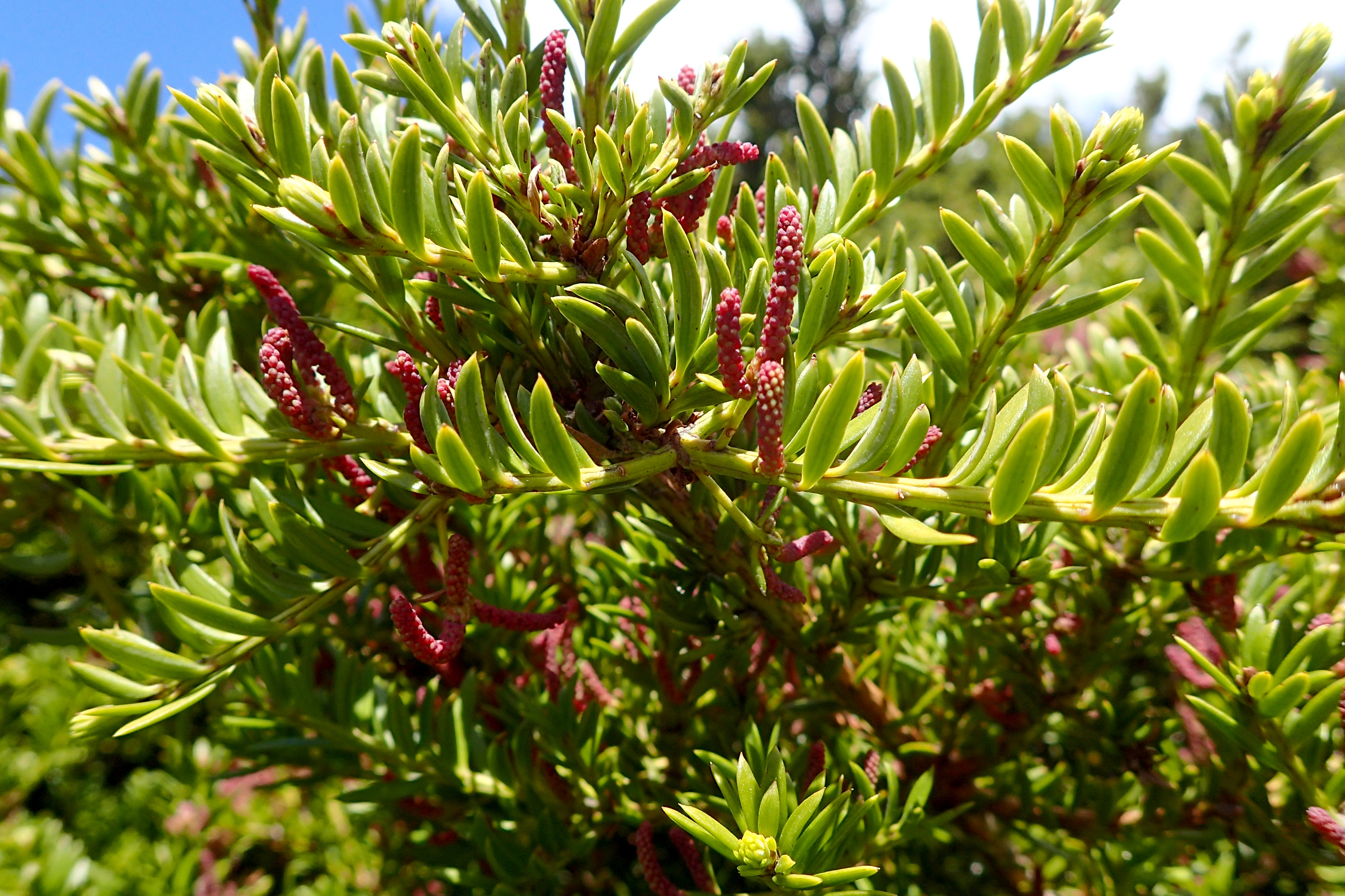 Podocarpus nivalis in Kea Point Mt Cook, Canterbury (New Zealand)